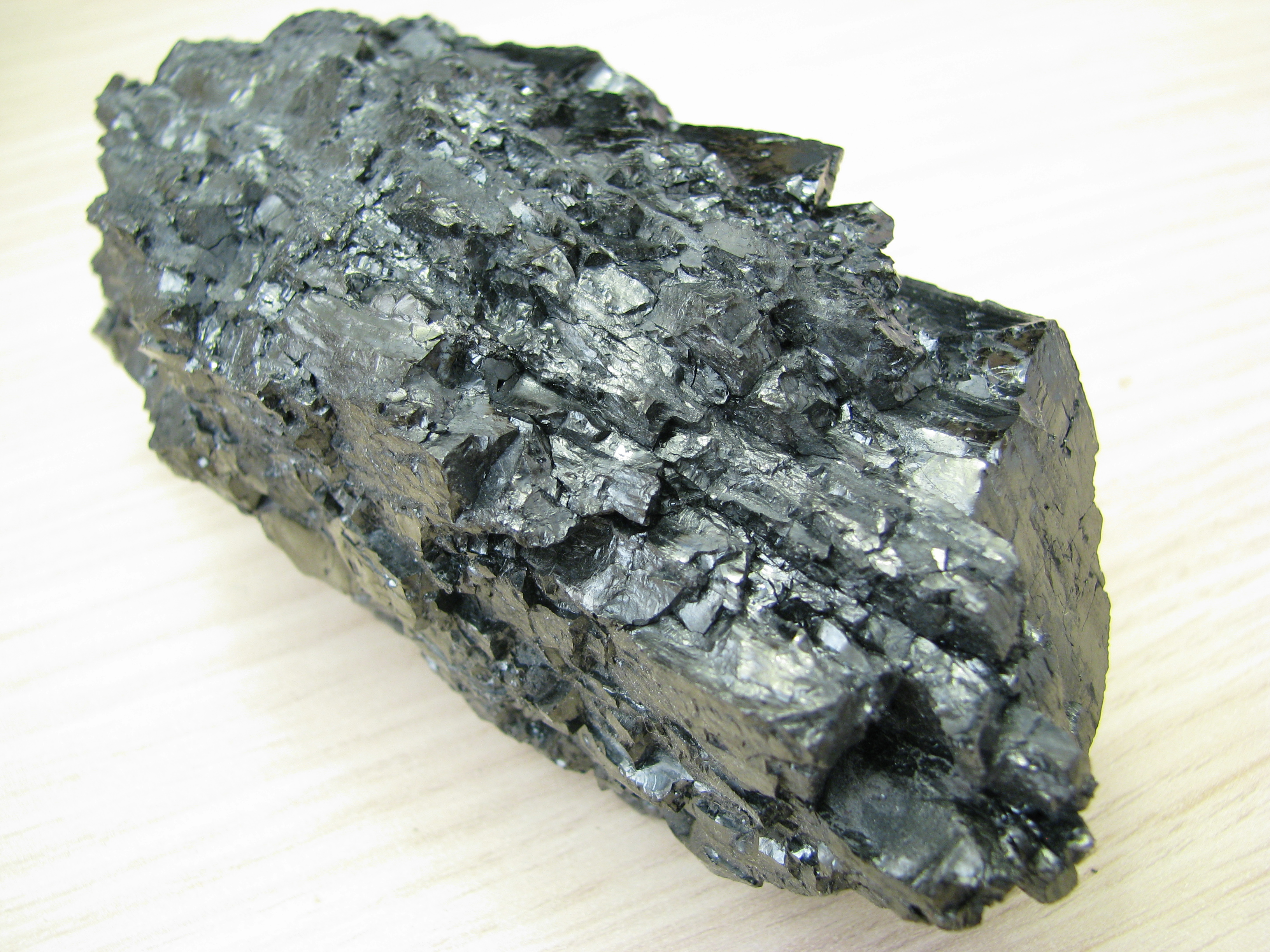 Lump of anthracite extracted from the Ibbenbüren underground coal mine, located in Ibbenbüren, Germany.